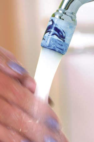 AquaClic water conserving areator/pressure control accessory on tap